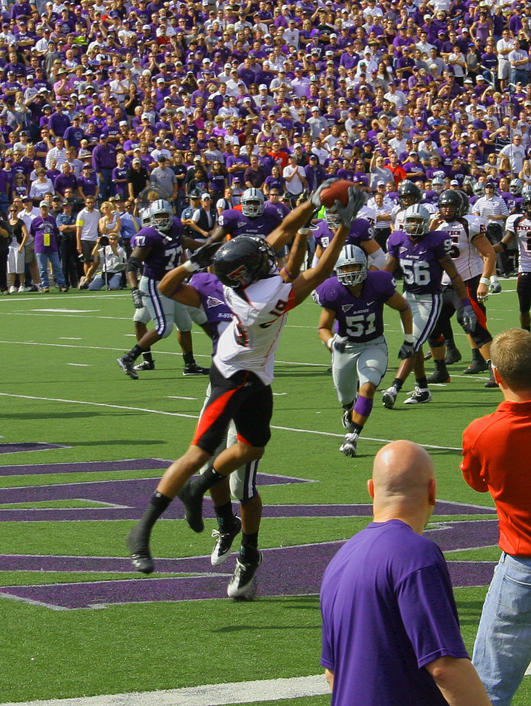 Texas Tech's Lyle Leong catching a pass for a touchdown during the 2008 Texas Tech at Kansas State game.